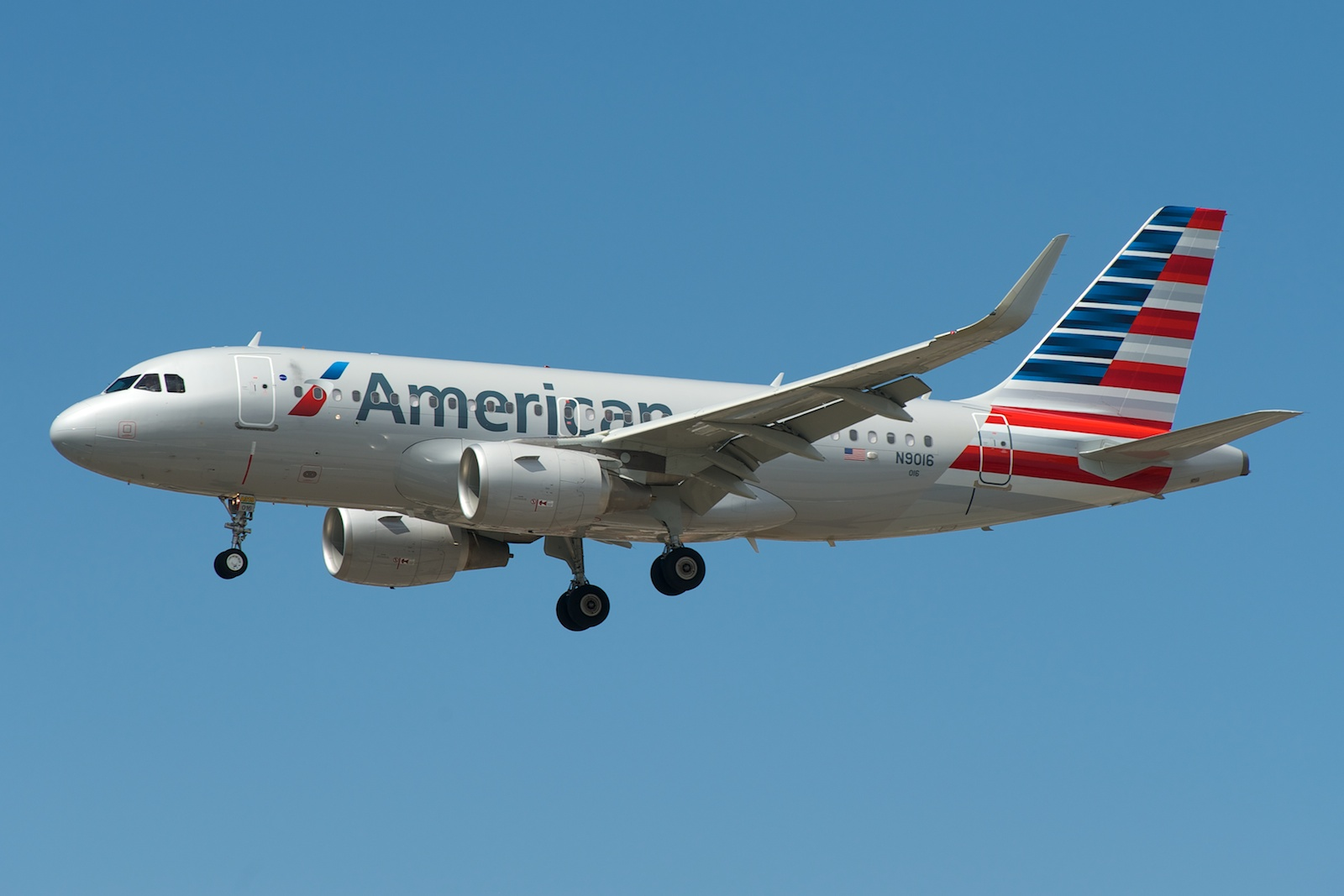 2 month old baby 'bus arriving YYZ